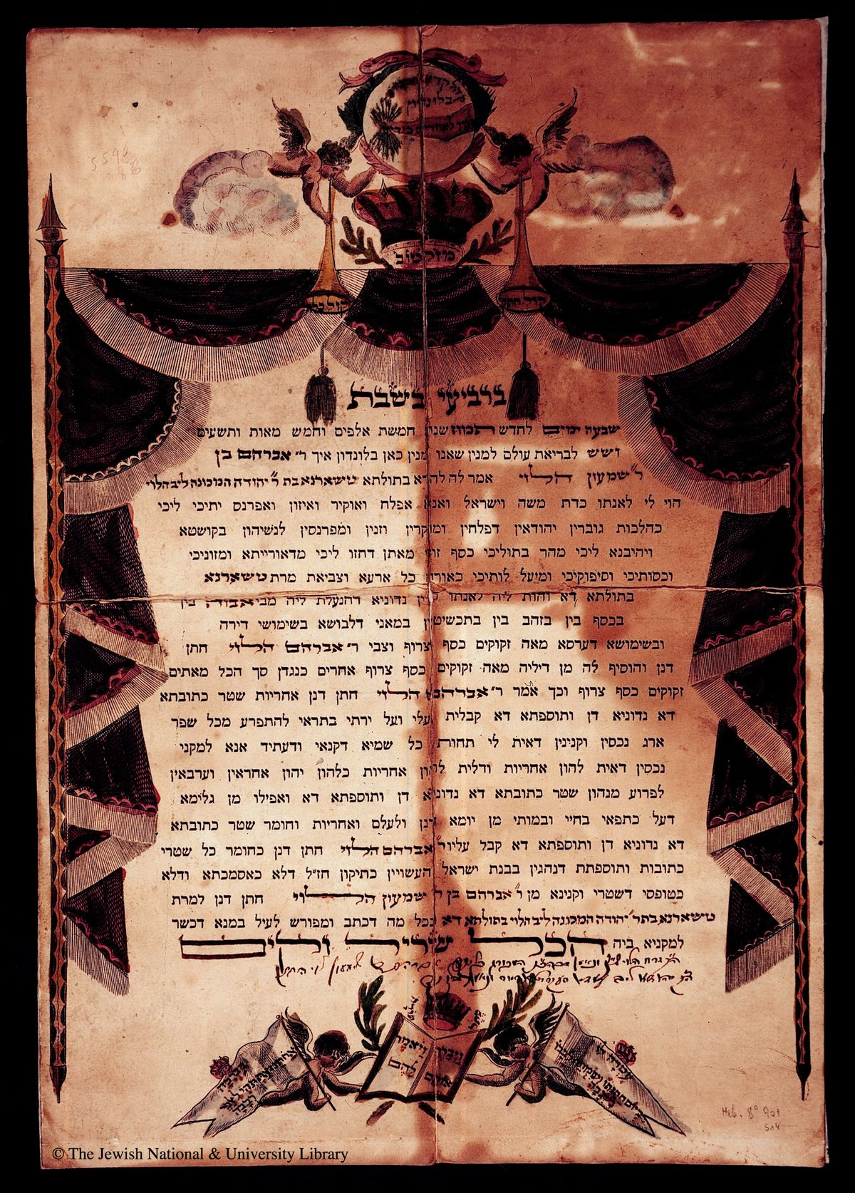 Ketubah from The Ketubbot Collection of the National Library of Israel